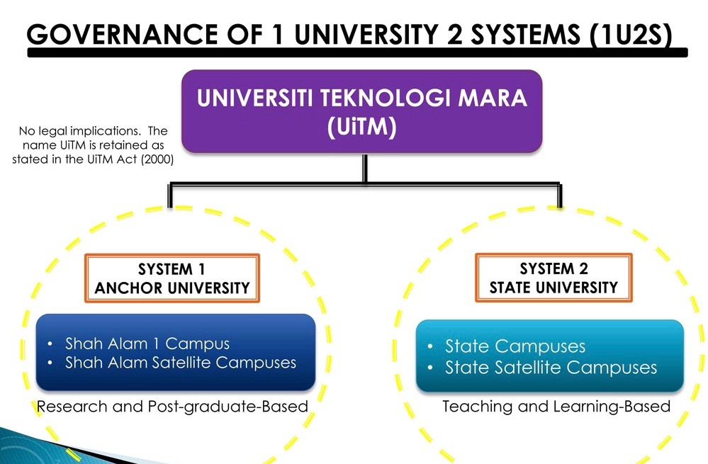 The vast network of UiTM was divided by Anchor University and State UniversityBahasa Melayu: Sistem '1 Campus 2 System'